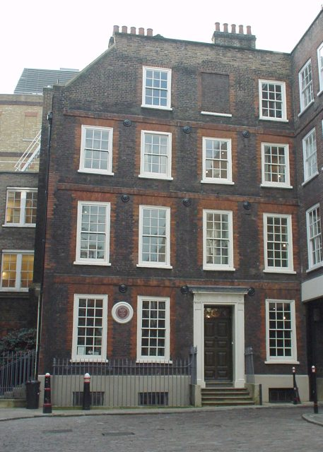 17 Gough Square